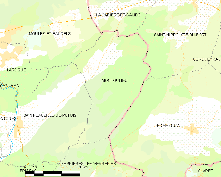 Map commune FR insee code 34171.png - Montoulieu (Hérault)